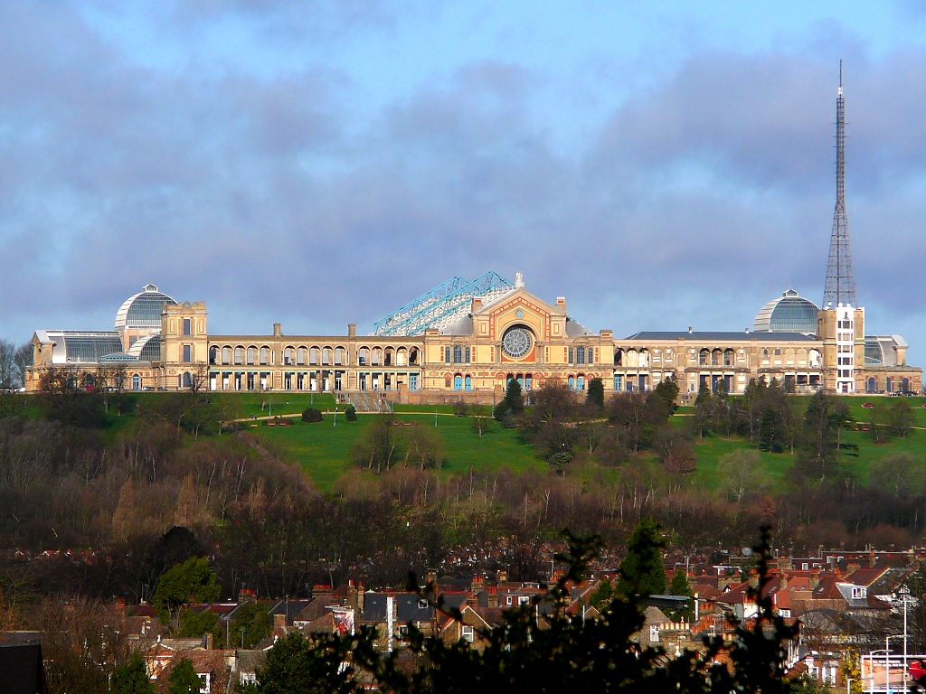 Alexandra Palace, Muswell Hill, London. The image was taken with a Panasonic Lumix DMC-TZ1.